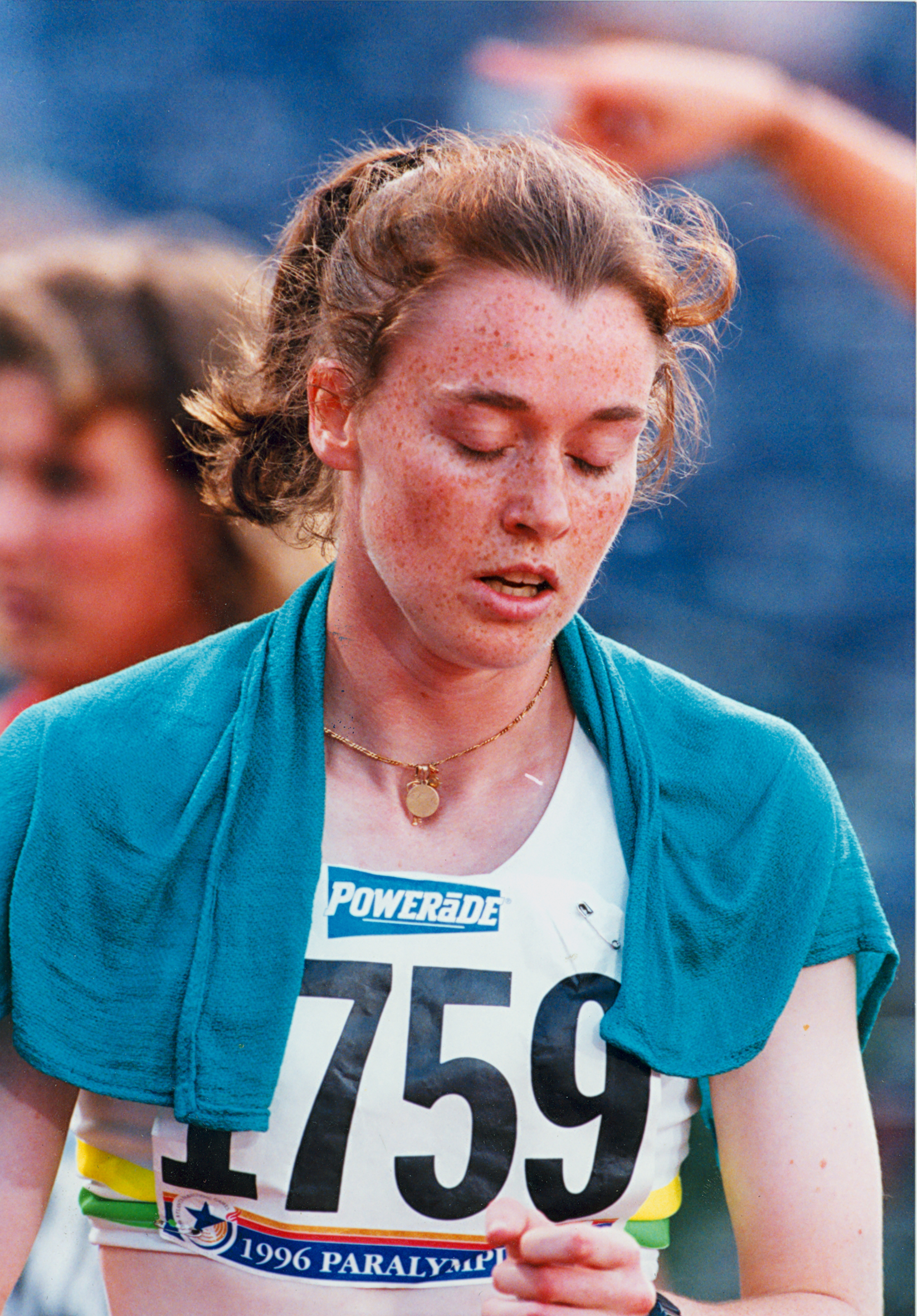 Australian athletics gold medallist Sharon Rackham at the Atlanta 1996 Paralympic Games.